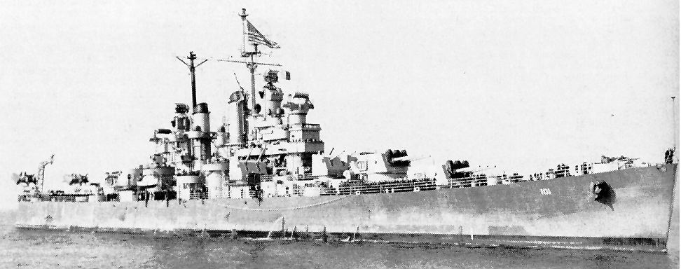 The U.S. Navy light cruiser USS Amsterdam (CL-101), flying a large ensign at the fore, arrives off the Naval Air Station at Astoria, Oregegon (USA), 14 October 1945. Note the ship's two-tone Measure 12 colour scheme and Curtiss SC-1 "Seahawk" floatplanes, aft.